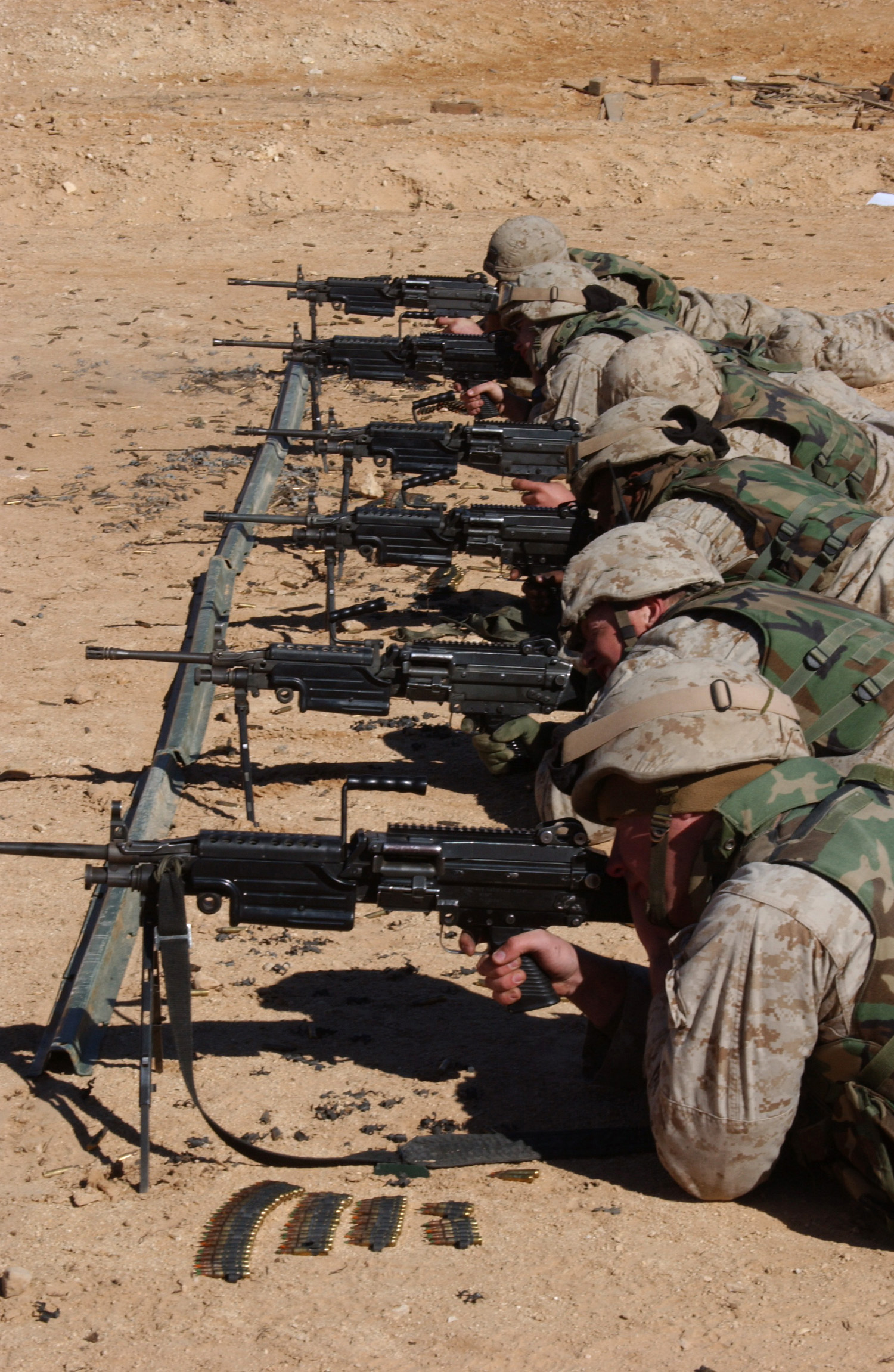 Marines from six different companies under Security Battalion, Marine Wing Support Group 37, 3rd Marine Aircraft Wing fire the M-249 Squad Automatic Weapon during a marksmanship competition held at Al Asad, Iraq, Jan. 25. The weeklong competition hosted by Security Battalion covered every weapons system from the M-9 pistol to the .50 Cal machinegun. PhotoID: 200527105624